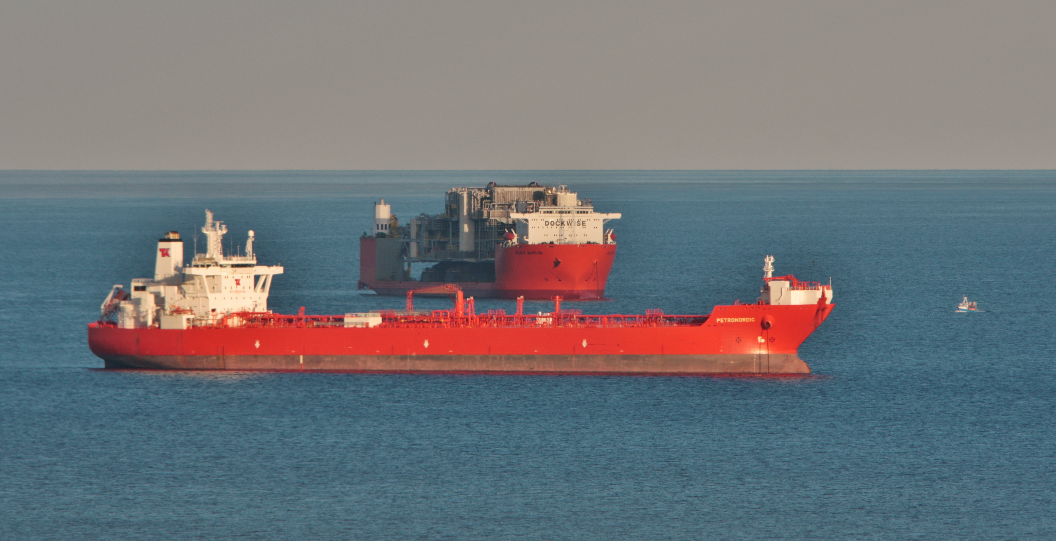 The 234m Petronordic and 218m Black Marlin dwarf the local fishing boat LK244 Faith Emily.